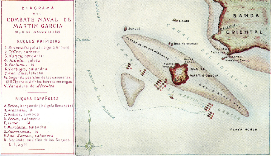 Map of the battle of Martín García (1814).